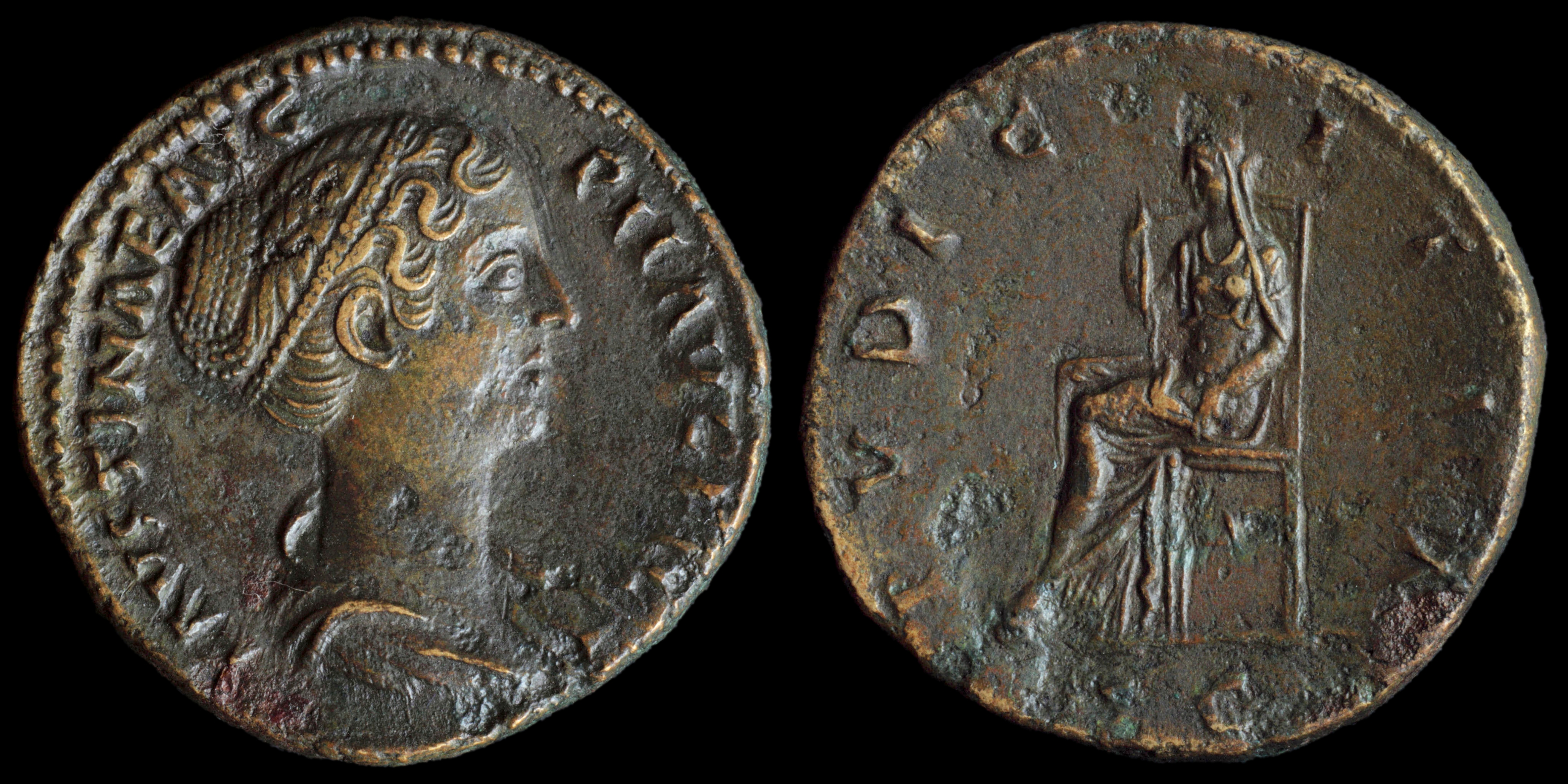 Orichalcum dupondius struck in Rome 147-150 AD obverse: draped bust right FAVSTINAE AVG_PII AVG FIL revers: Pudicitia seated left, pulling veil and holding scepter PVDIC_ITIA S C referencis: RIC 1404 (b). C. 187 var. BMC 2159 weight: 13,54 g diameter: 25 mm